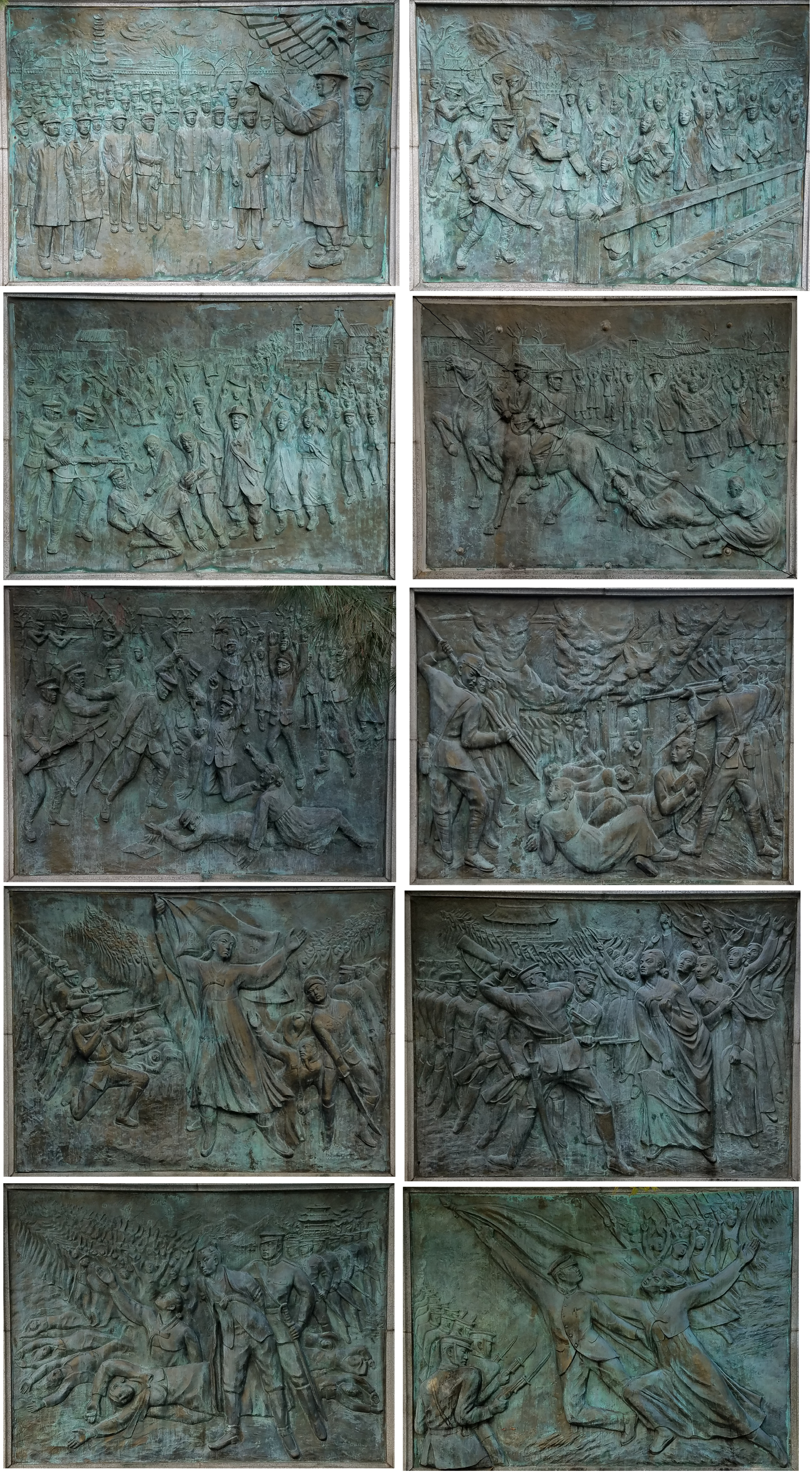 Ten bas-relief displayed at Tapgol Park to commemorate March 1st 1919 Independence Movement.